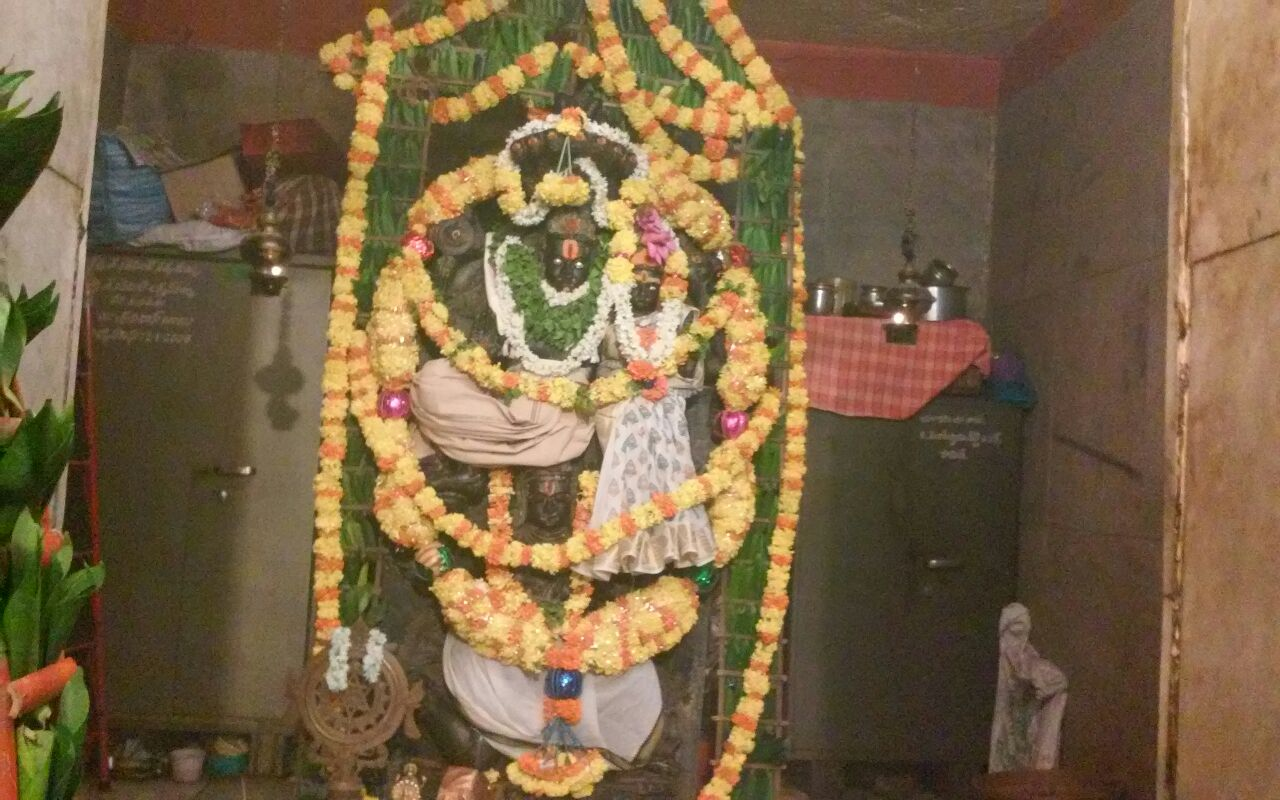 Sri Lakshmi Narayana Swami in Pamidi